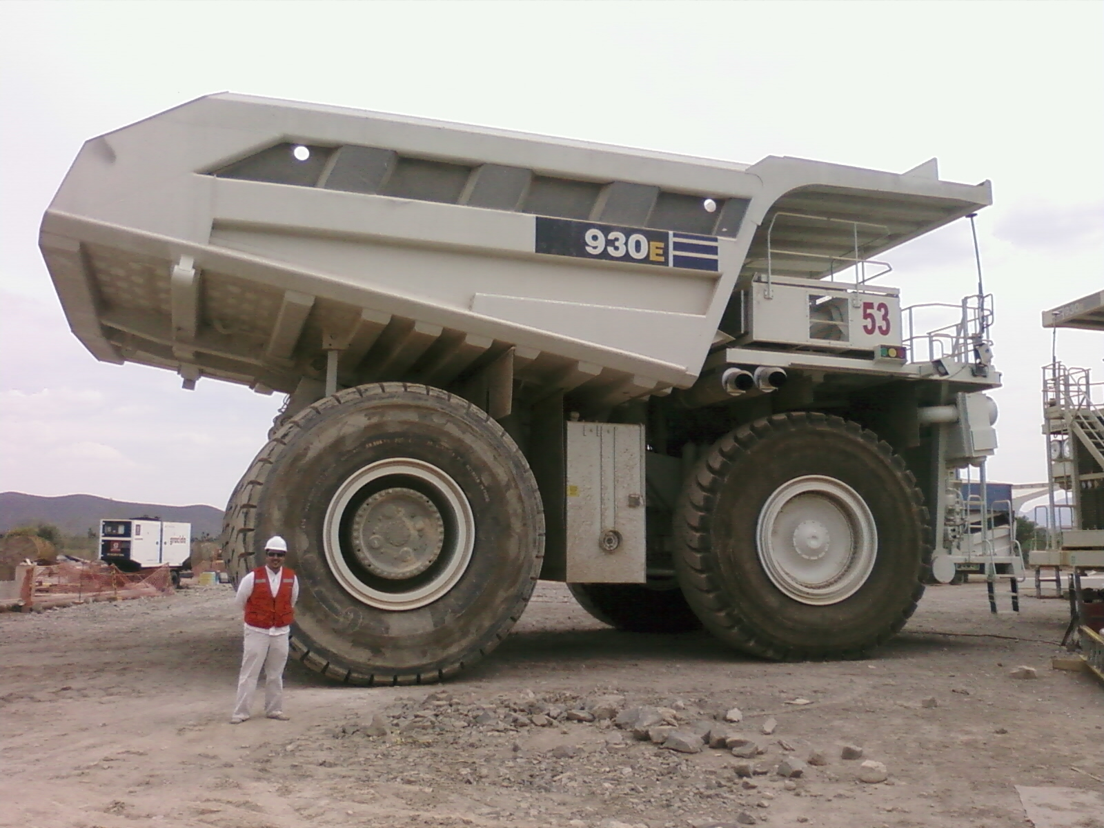 Dump truck Komatsu 930E